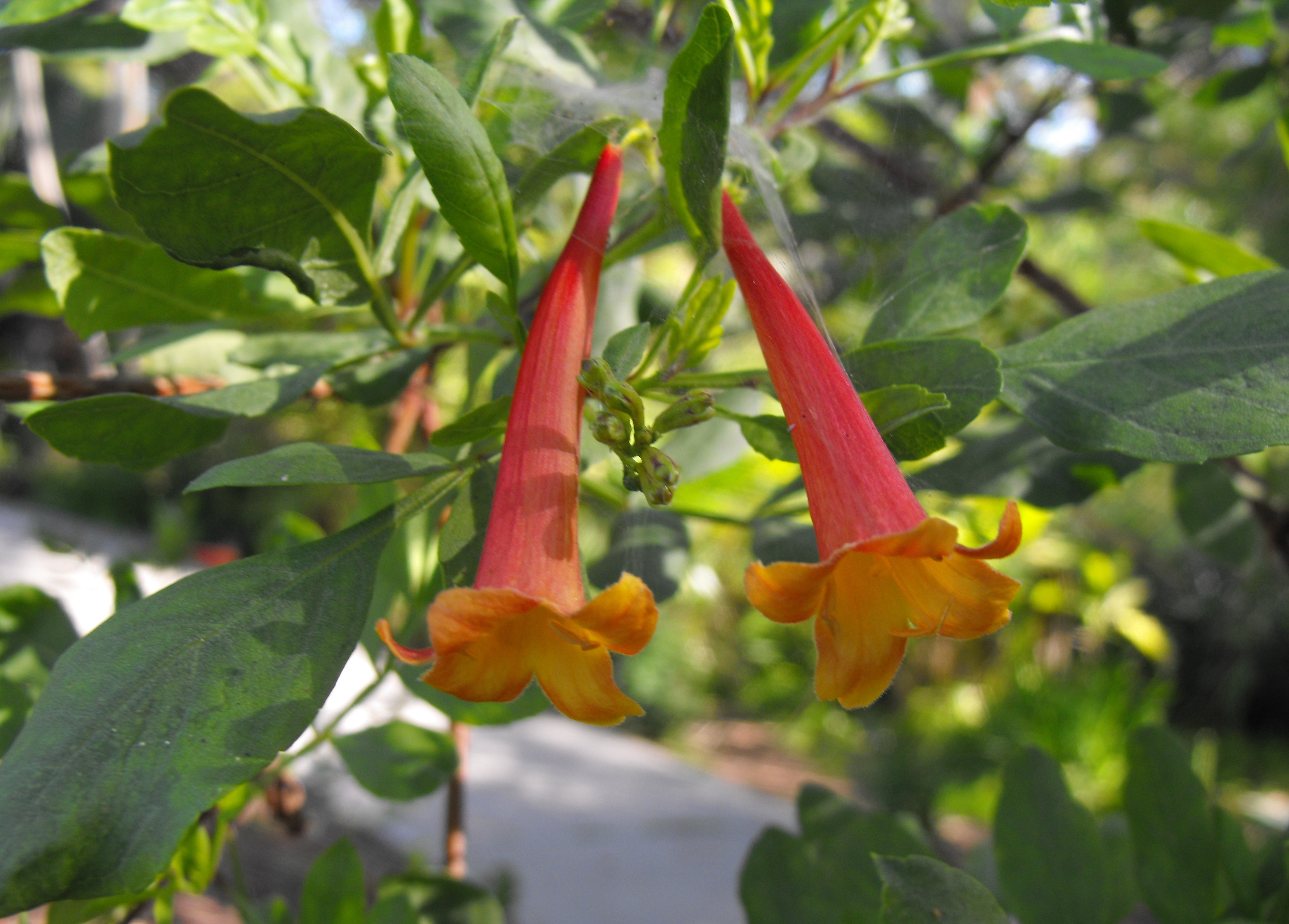 Tecoma fulva subsp. arequipensis at Quail Botanical Gardens in Encinitas, California, USA.